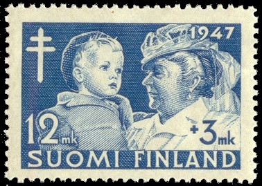 Postage stamp depicting Mrs. Alli Paasikivi, spouse of president J.K.Paasikivi, and a baby